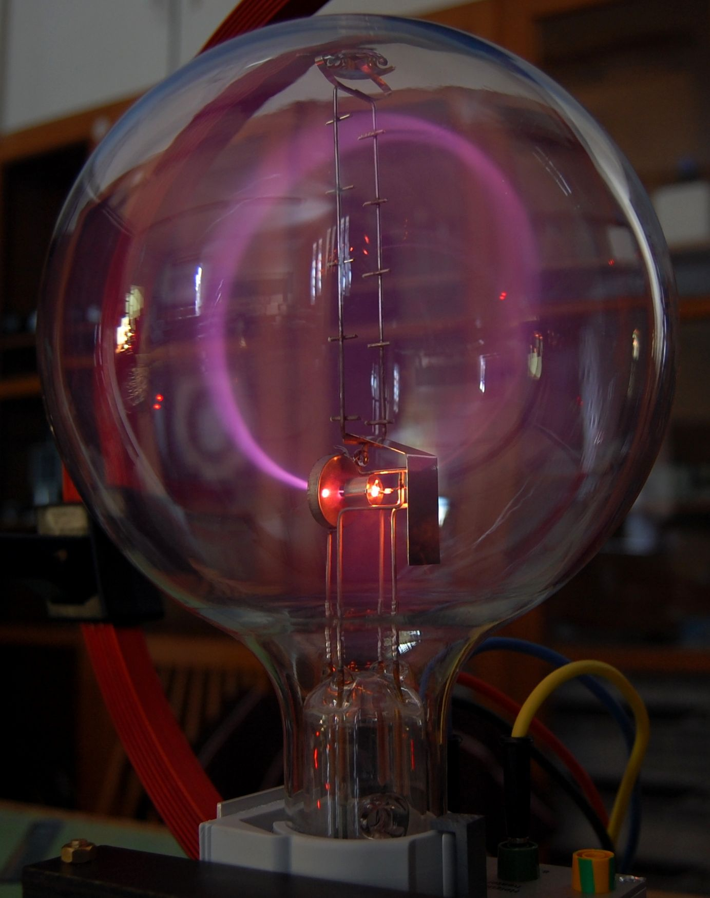 Beam of cathode rays (electrons) in a demonstration vacuum tube moving in a circle in a magnetic field (cyclotron motion). The electrons are produced by an electron gun at bottom, consisting of a hot cathode, a metal plate heated by a filament so it emits electrons, and a cylindrical metal anode at a high voltage which accelerates the electrons into a beam. The red circular Helmholtz coil partially visible behind the tube generates a horizontal magnetic field that exerts a Lorentz force on the electrons. The force on the electrons is perpendicular to their direction of motion, causing them to bend into a circular path. Cathode rays are normally invisible, but enough air has been left in the tube so that the air molecules glow pink from fluorescence when struck by the fast-moving electrons.